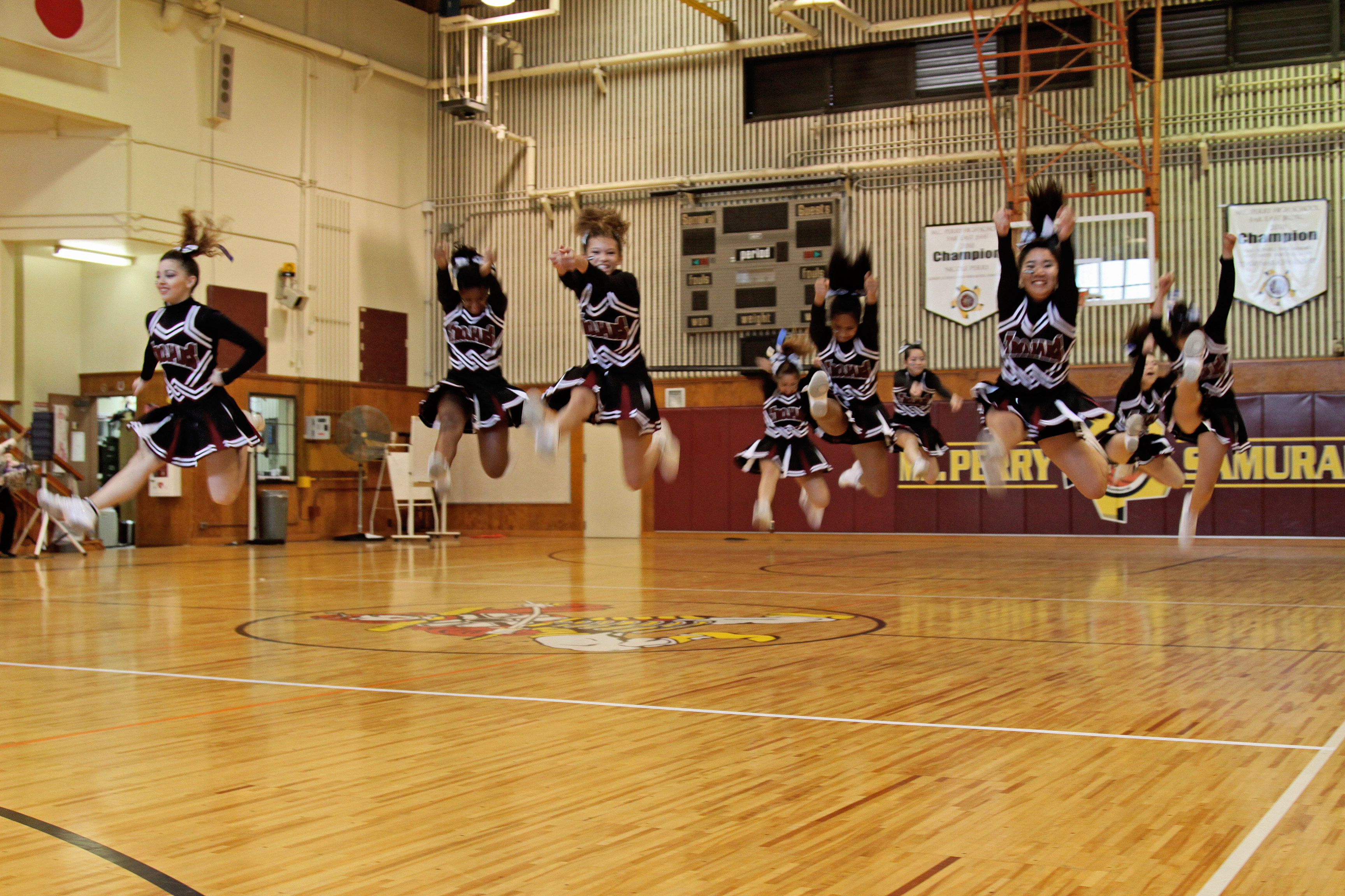 The Zama Trojans perform their team routine during the final competition of the National Cheerleading Association cheerleading clinic held at the Matthew C. Perry High School gymnasium here Nov. 12. The Trojans took 3rd place in the Department of Defense Dependents Schools-Pacific and Domestic Dependent Elementary and Secondary Schools-Guam small-school division.